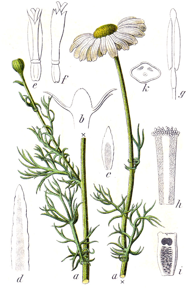 Tripleurospermum maritimum (L.) W. D. J. Koch, syn. Chamaemelum inodorum (L.) Vis. Original Caption Falsche Kamille, Chamaemelum inodorum